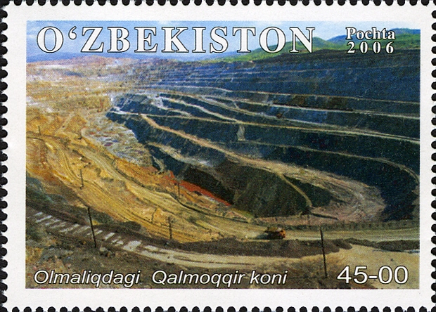 Stamps of Uzbekistan, 2006